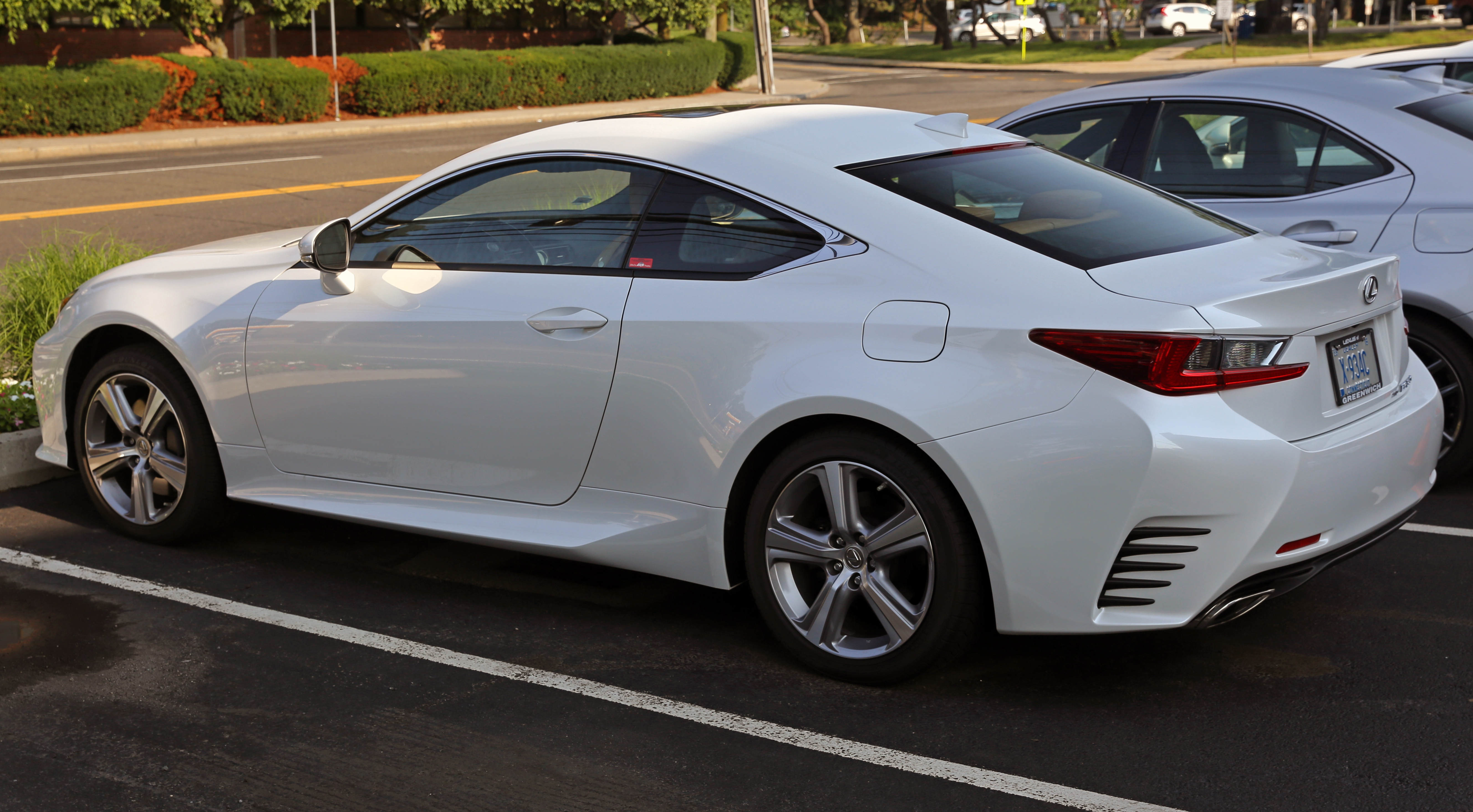 2015 Lexus RC350 AWD in Starfire Pearl with Flaxen Linear Dark Mocha Wood trim (!) interior. Also has navigation package, Premium package, tilt/slide power moonroof and so on.